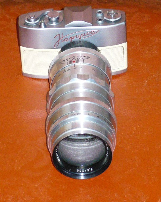 Telemar 200mm/5.6